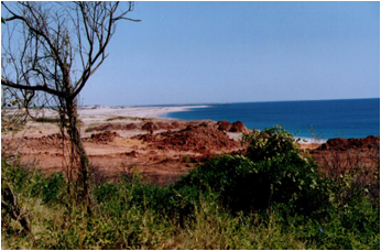 Cape Leveque, Dampier Peninsula, Western Australia